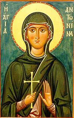 Antonina of Nicaea